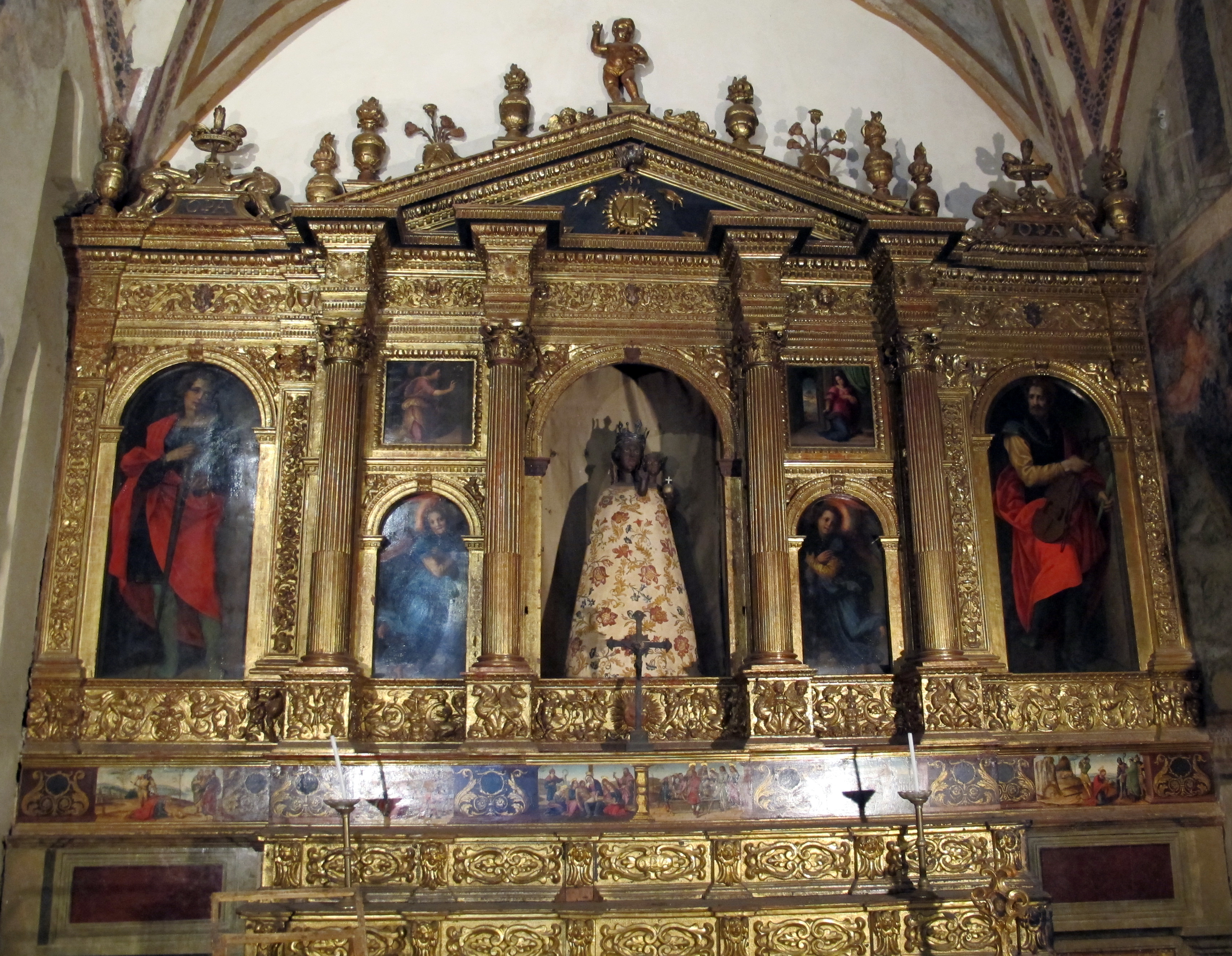 Loretino Oratory (San Miniato) - Altarpiece